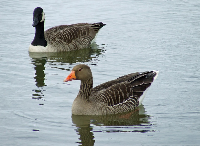 Geese Greylag Goose (nearest) and Canada Goose in Waters' Edge Park.